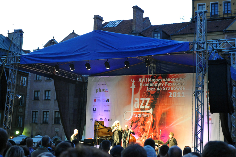 Open air concert in The Old Town Square of Warszawa in August 2011. Scandinavian jazz musicians performing on stage, Caecile Norby (voc) and Lars Danielsson (b).